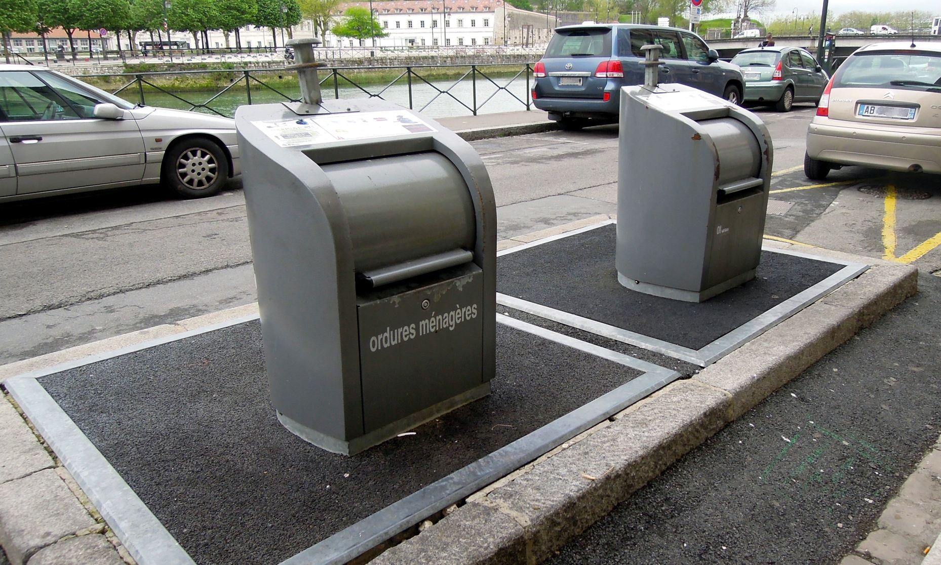 Communal garbage bins, Quai Amiral Jaureguiberry, Bayonne - Bayonne in south western France in the Pyrenees-Atlantiques department, is the main town of Labourd and is part of the French Basque country. The city is divided into Grand Bayonne and Petit Bayonne by the River Nive. There are five attractive bridges connecting the two halves. The riverside bustles with restaurants, squares and a covered market. The quayside houses are half-timbered and have shutters painted the colours of the Basque flag.